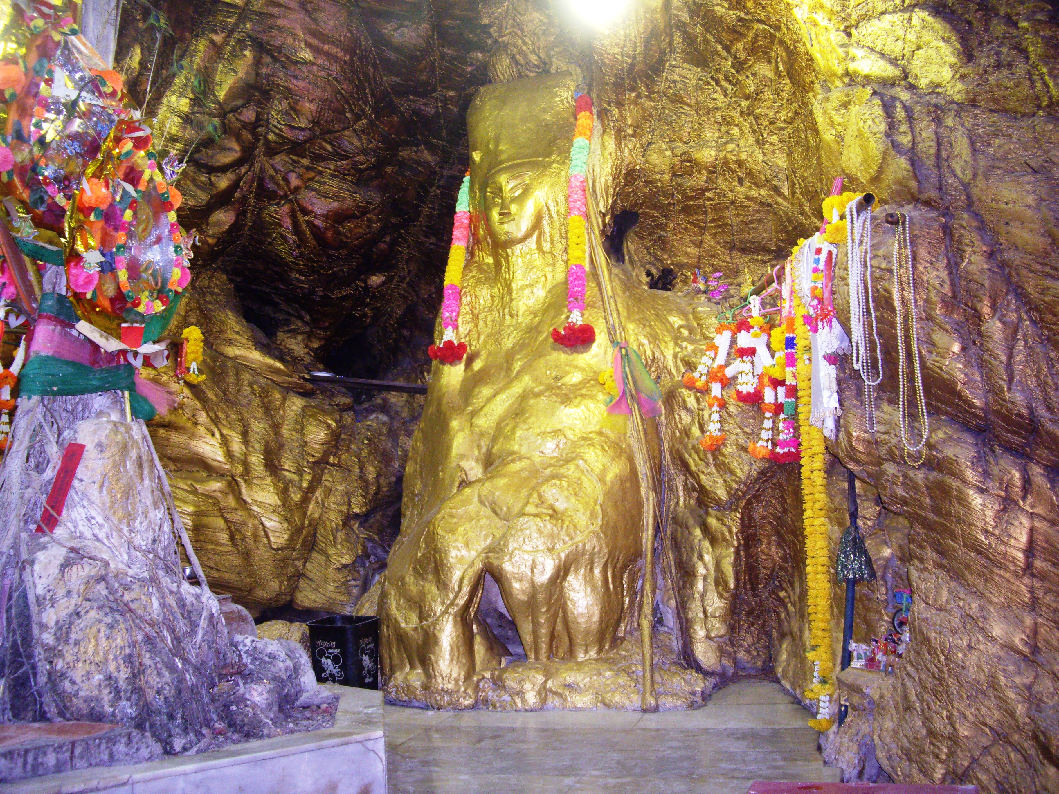 San Jao Phaw Khao Yai Chinese Temple